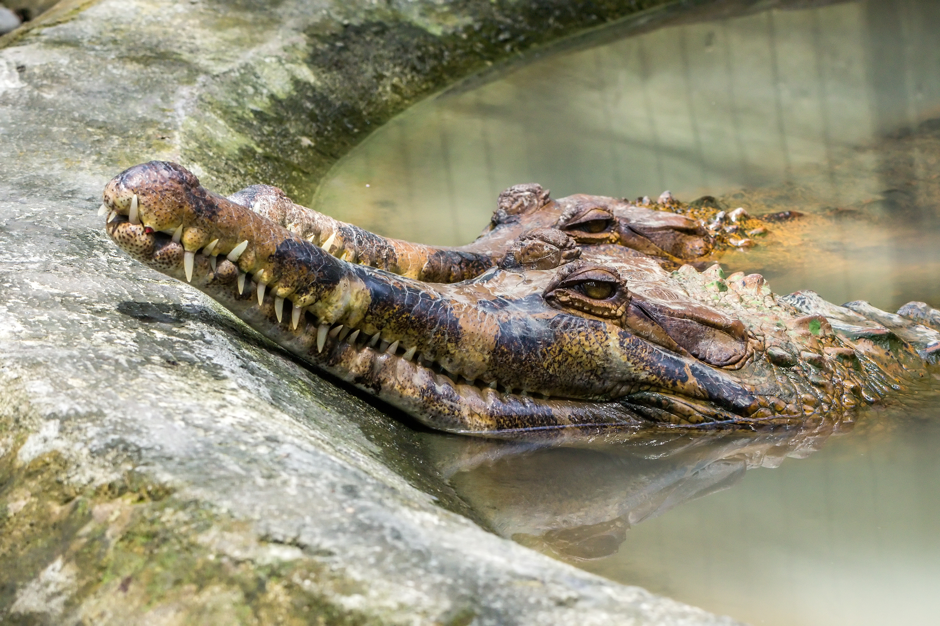 False gharial (Tomistoma schlegelii), Gembira Loka Zoo, 2015-01-15